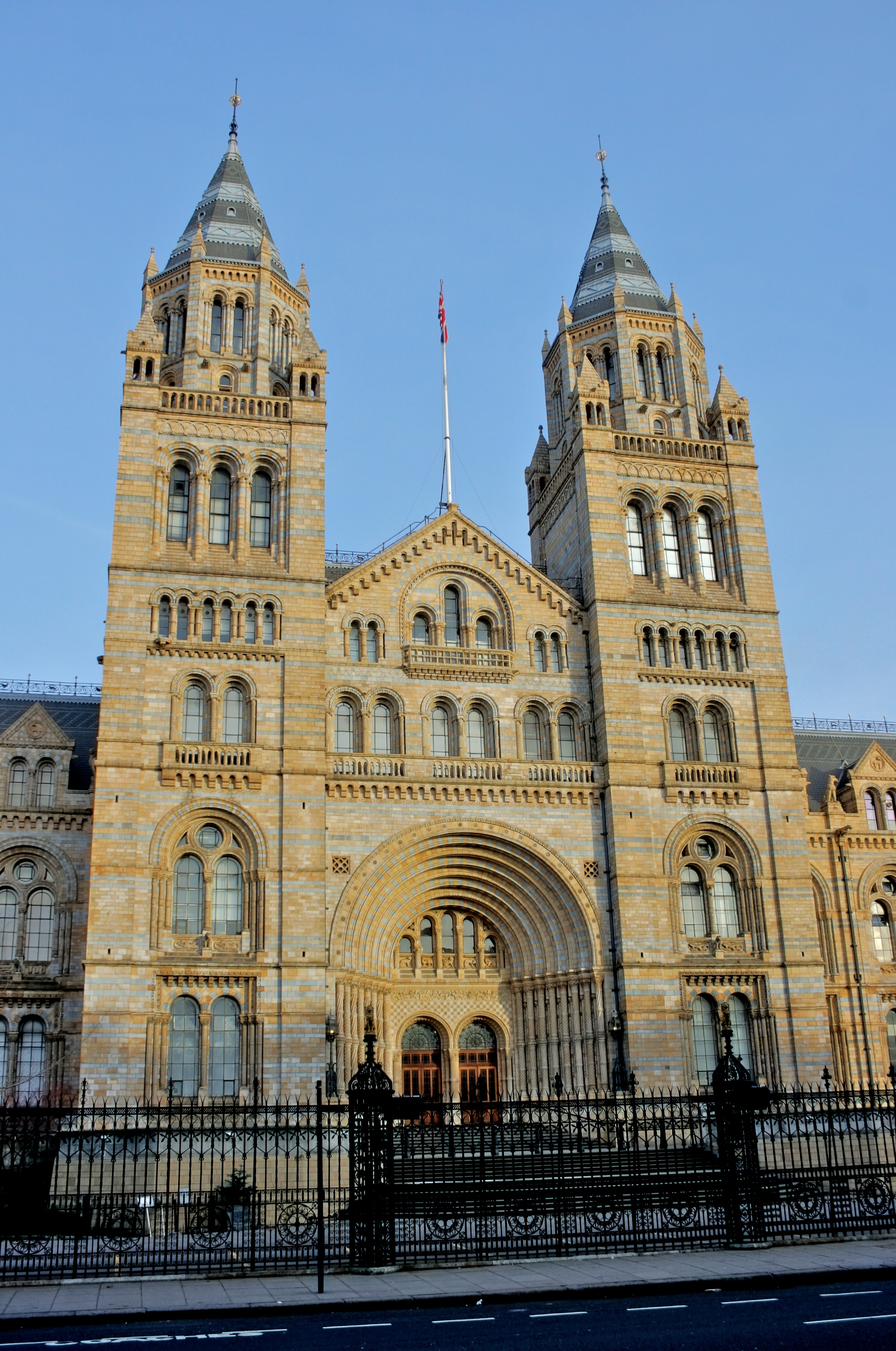 Natural History Museum, London.